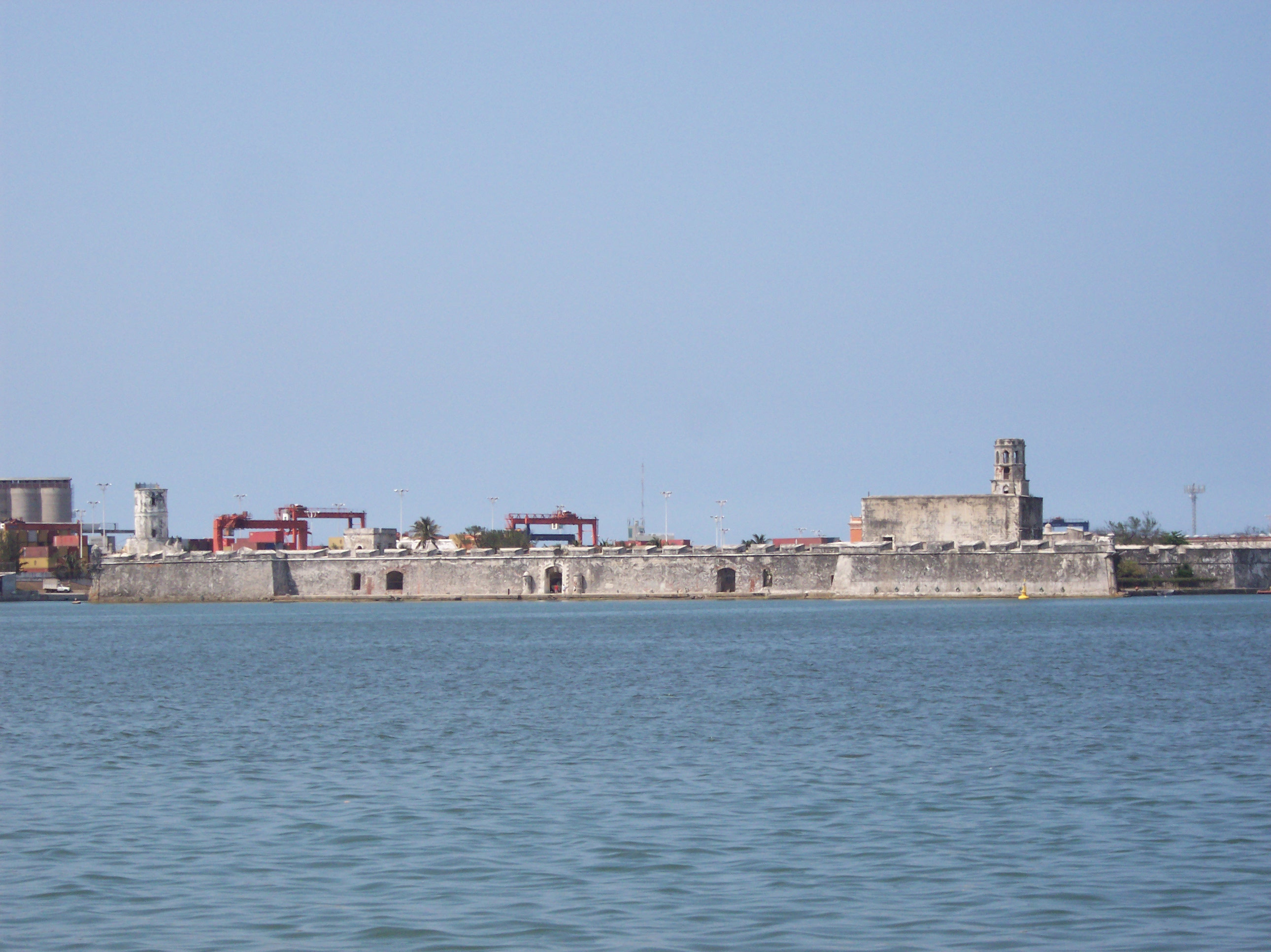 San Juán de Ulúa Building, this is located in a natural island yet connected to the main land. This building is historical. Here was the last redoubt of the spanish during the independence, it was a jail where famous people like Benito Juárez was jailed. Port and City of Veracruz. Estate of Veracruz, Mexico. SPANISH: Ciudad y Puerto de Veracruz, Estado de Veracruz, México.